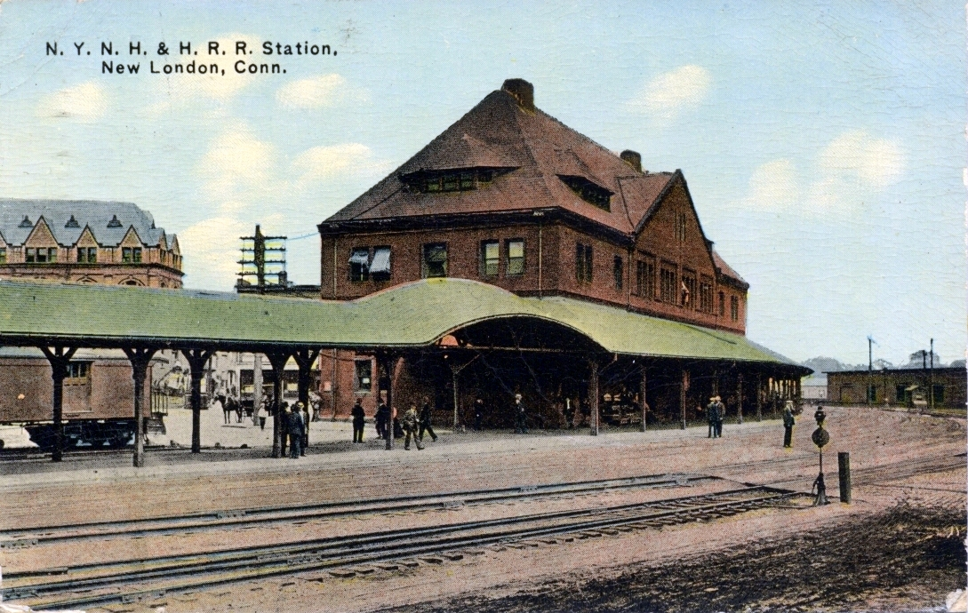 Early divided back postcard of New London Union Station, including the canopy over State Street, but not the 1912-built pedestrian bridge. The card was postmarked in 1914.